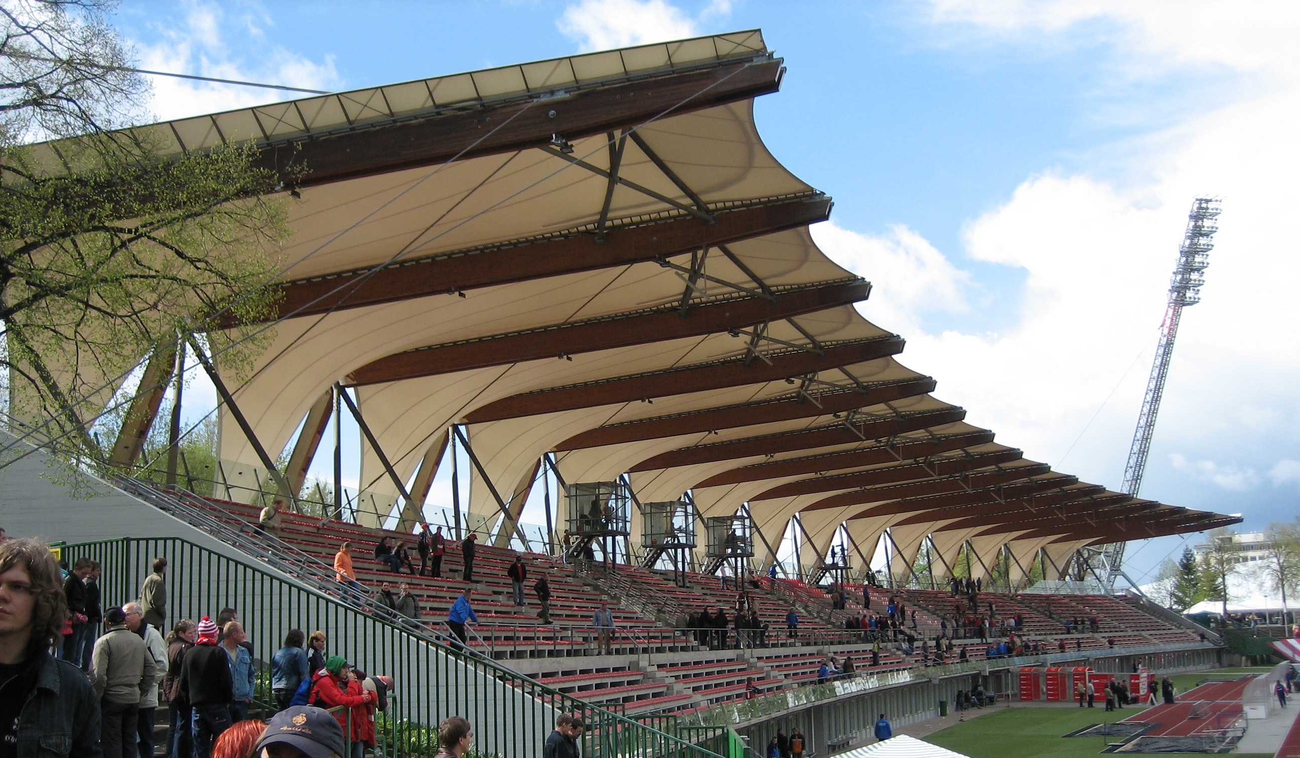 This picture shows the main stand of the Steigerwaldstadion, a football ground in Erfurt, Germany.